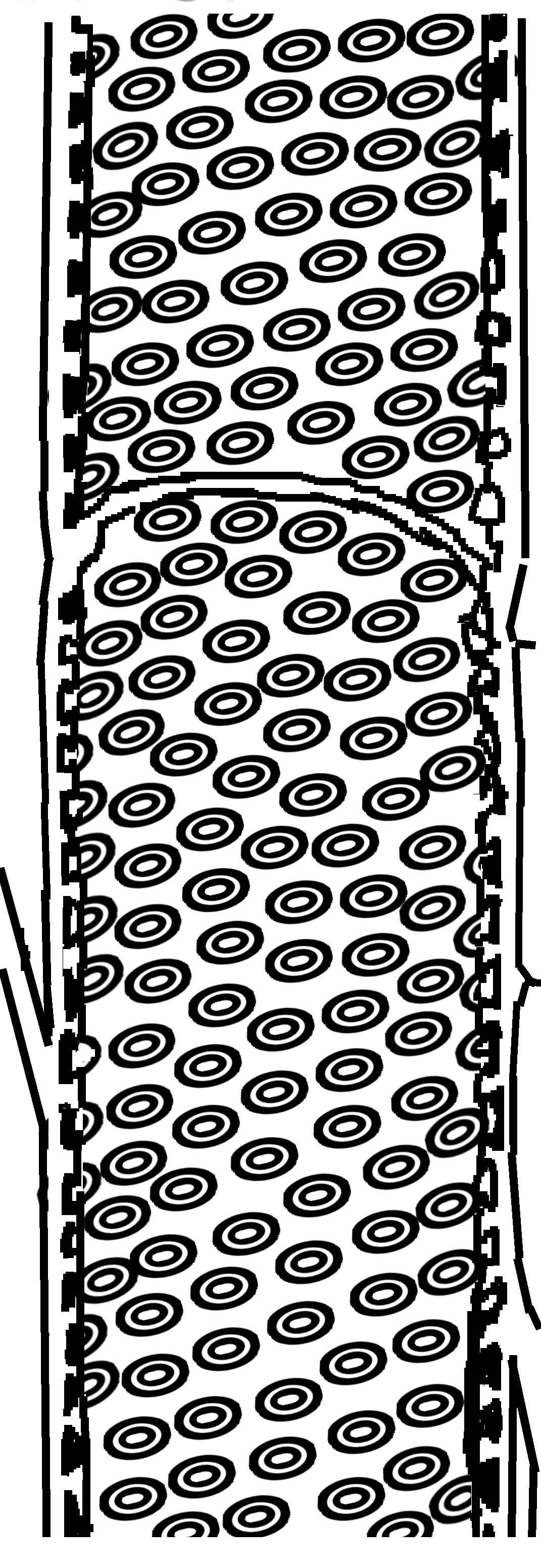 Xyleem vessel of wood